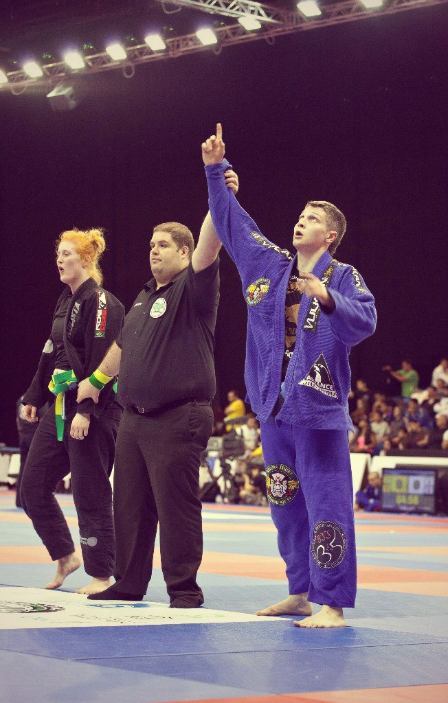 Satricia Knake and Elena Zenkevich in Abu-Dhabi 2012